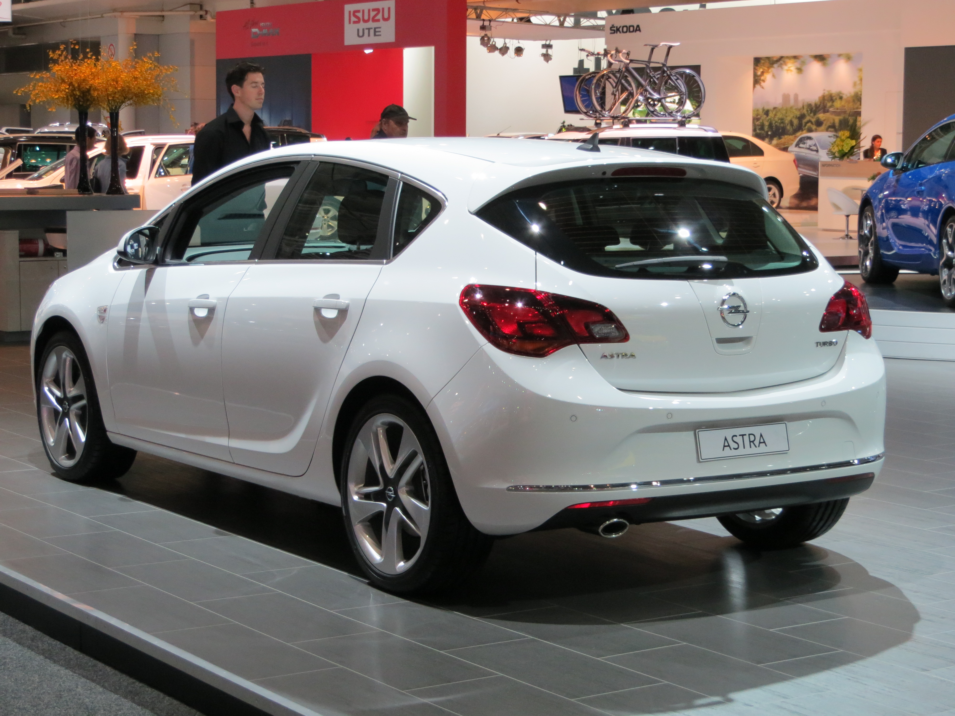 2012 Opel Astra (AS) Sport 5-door hatchback. Photographed at the 2012 Australian International Motor Show, Sydney, New South Wales, Australia.